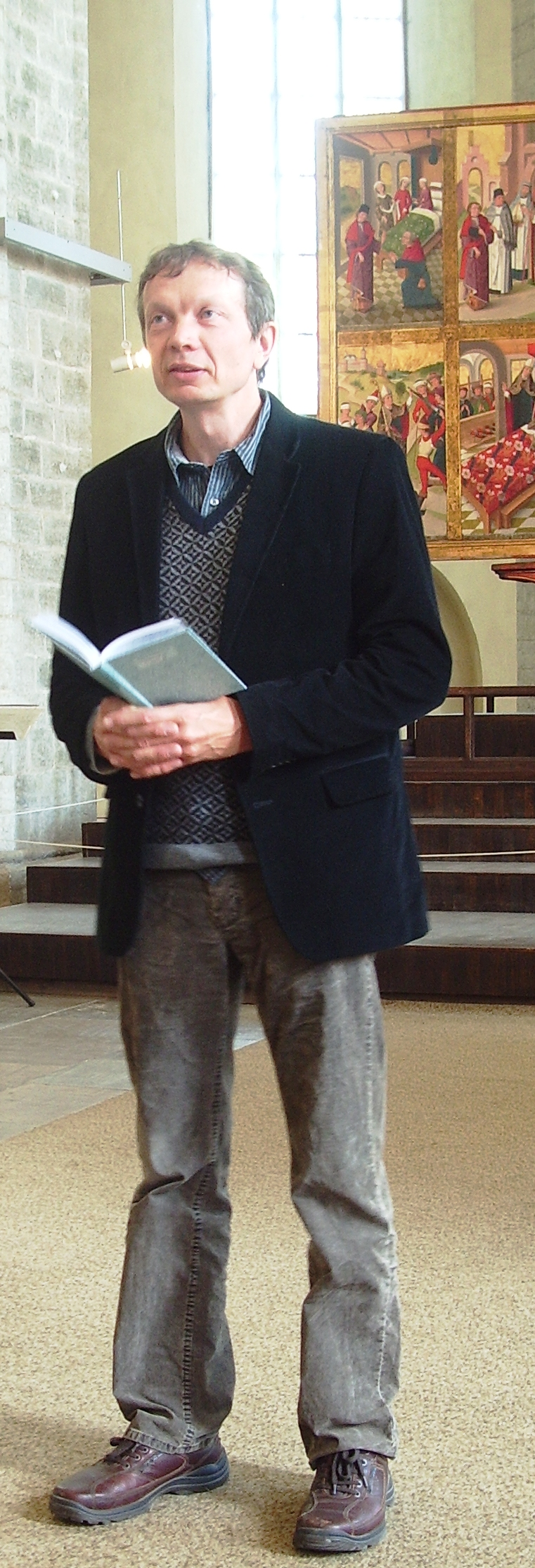 Tõnu Õnnepalu (born 1962) is Estonian writer and translator. Performing in Niguliste church during Tallinn Literature Festival.